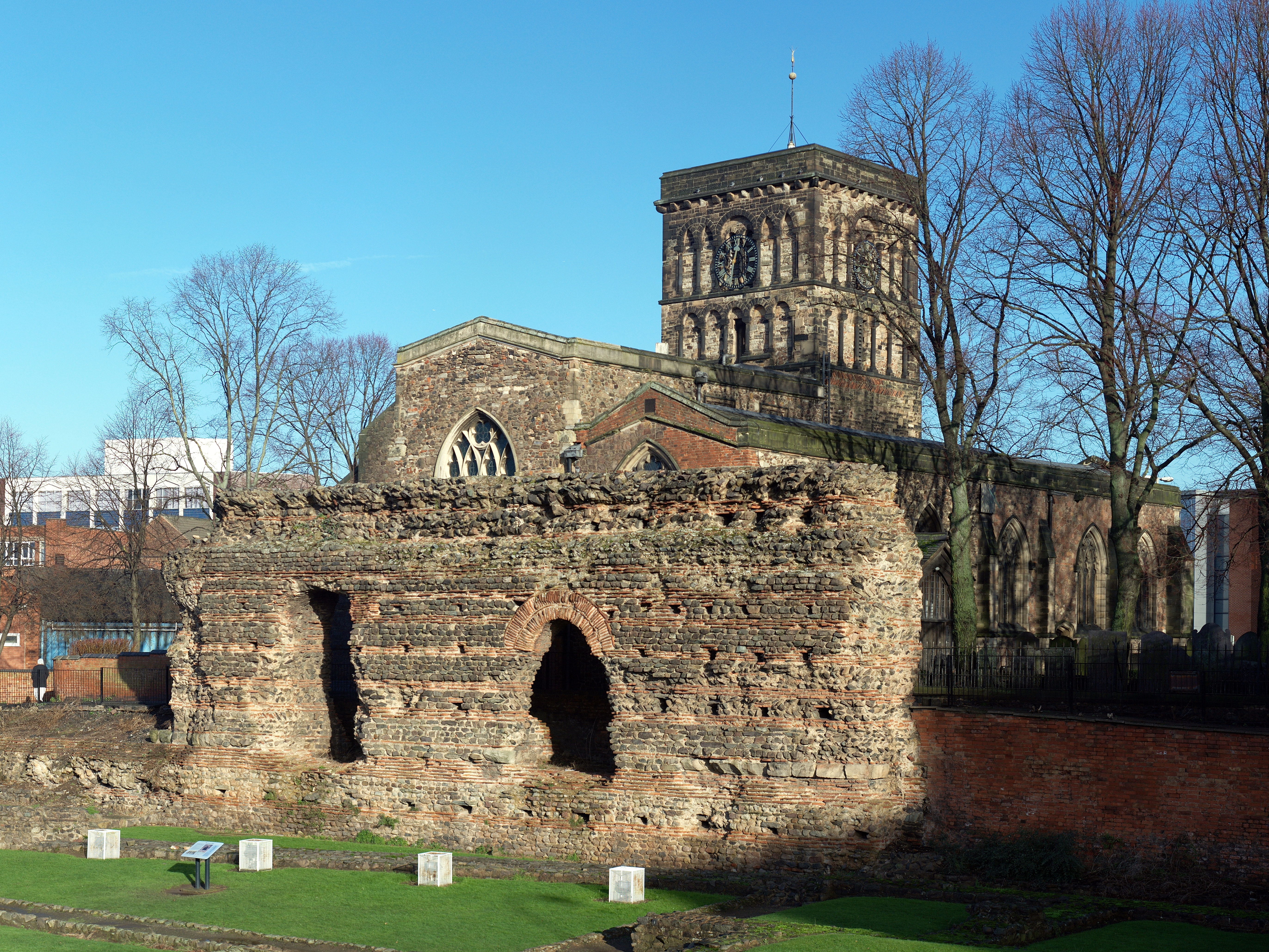 The Jewry Wall and St Nicholas' Church in Leicester, England. The wall is the second largest piece of surviving civil Roman building in Britain, and is both a Scheduled Monument and a Grade I listed building. Originally it separated the Palaestra from the Frigidarium at Ratae Corieltauvorum's baths. St Nicholas' Church is also Grade I listed, and dates from AD 880.